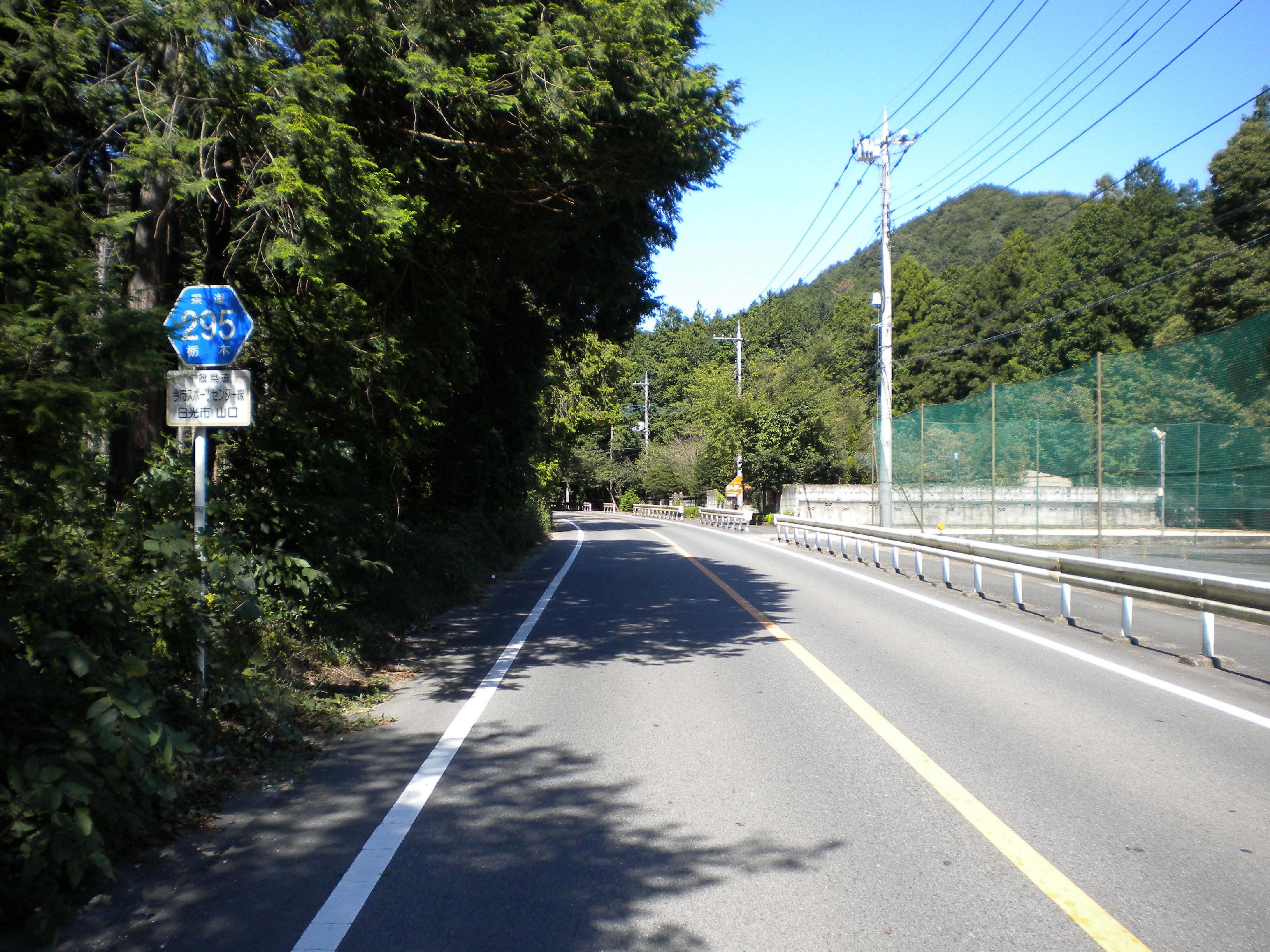 Tochigi prefectural road No.295 on Nikko city